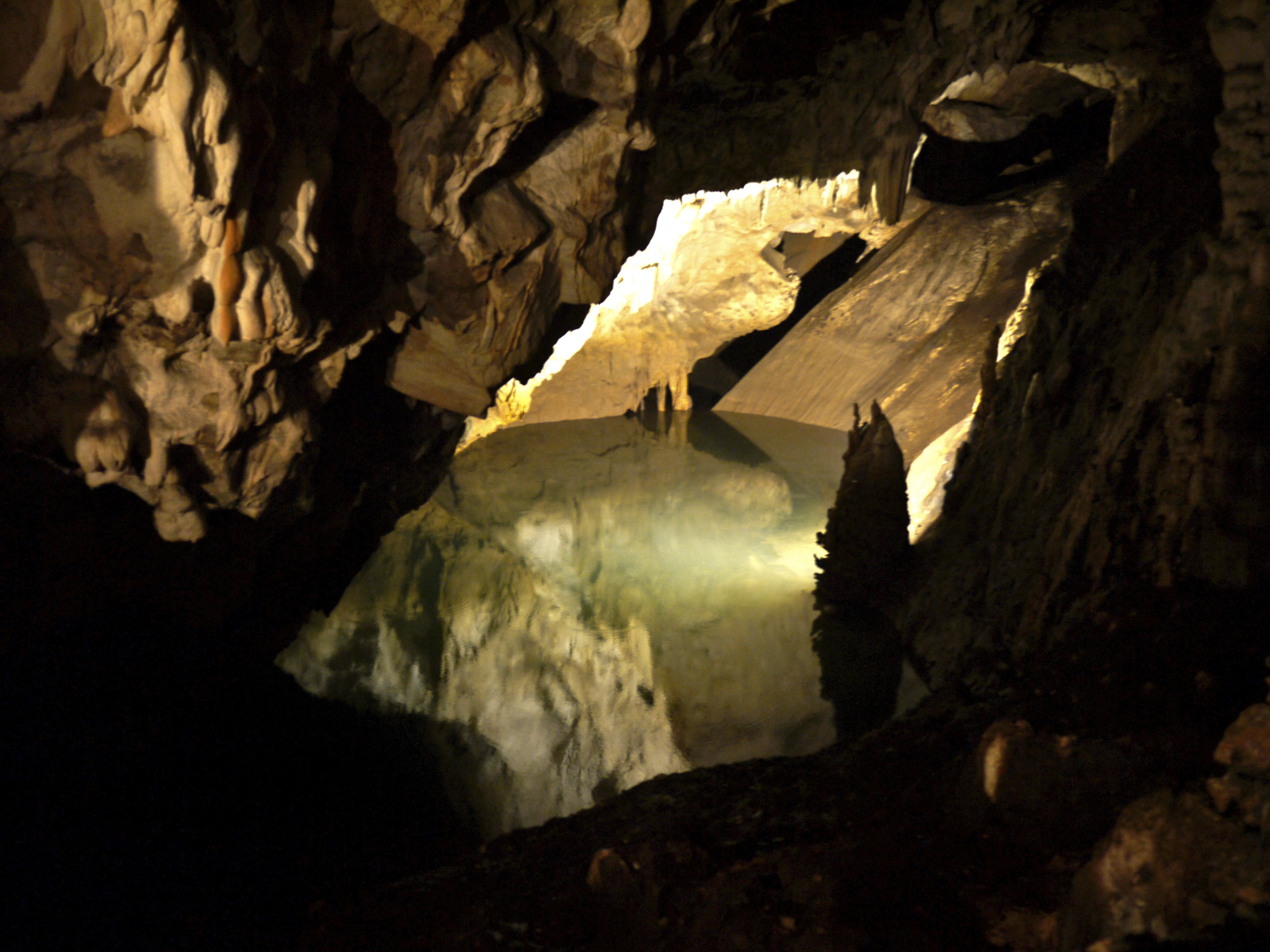 Vrelo Cave lake